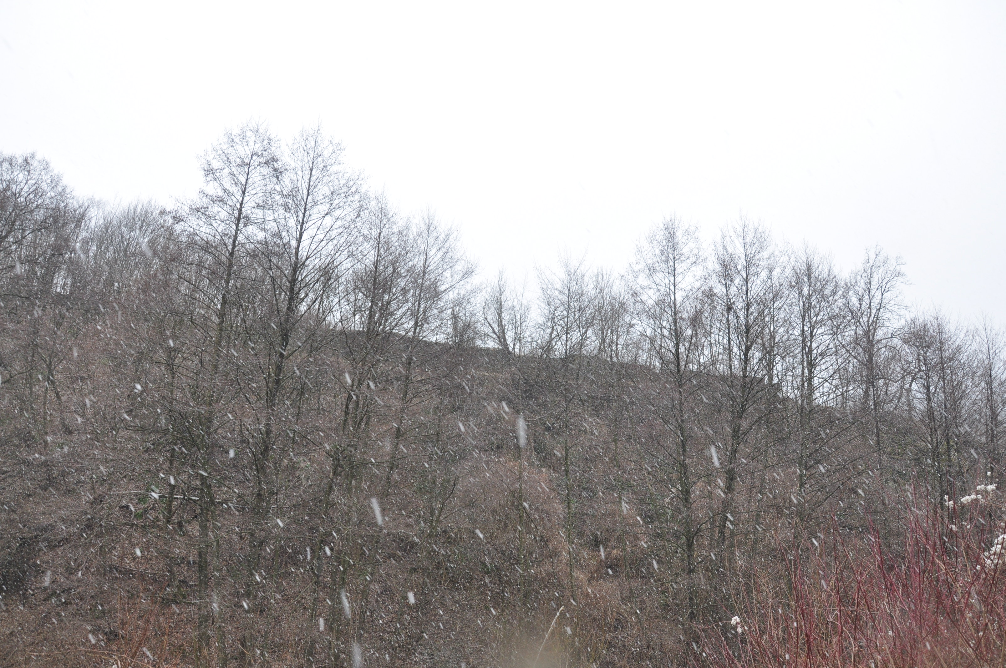 Kraku Lu Jordan